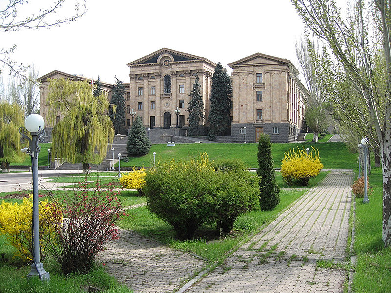 Houses of Armenian Parliament in Yerevan.